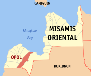 Map of the Misamis Oriental showing the location of Opol